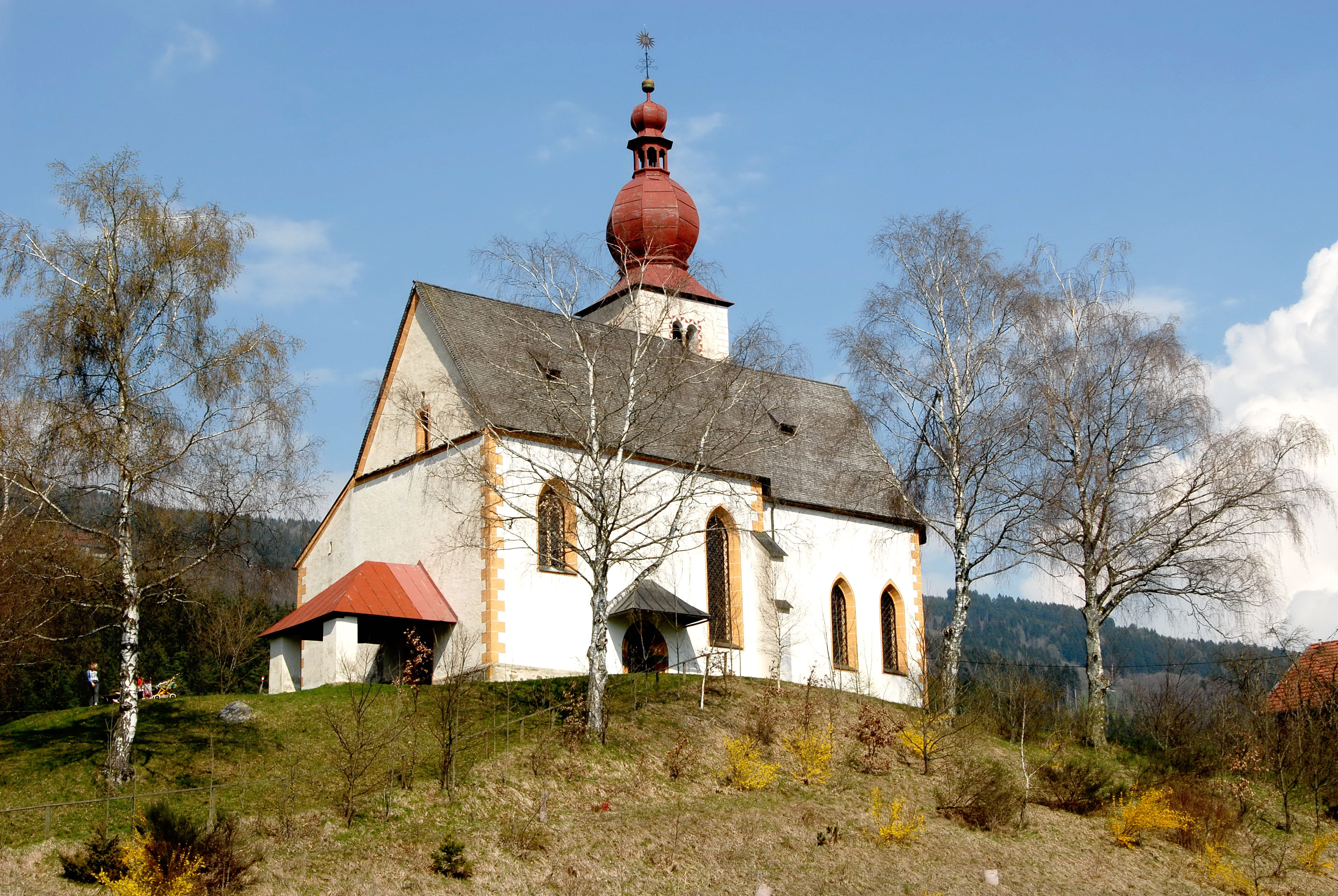 Church Maria Bichl in the community Lendorf, district of Spittal by the Drau, Carinthia, Austria